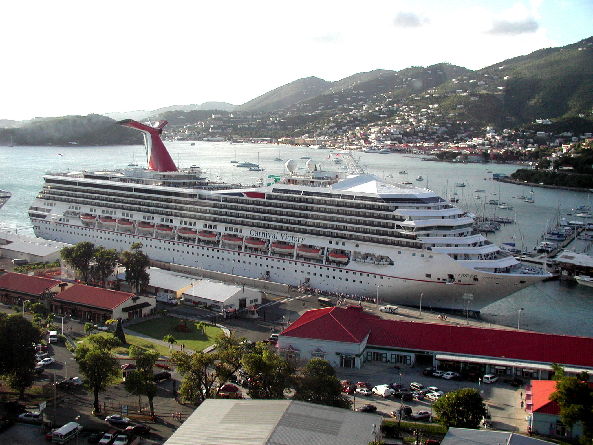 The Carnival Victory in St. Thomas Harbour, St. Thomas, U.S.V.I.